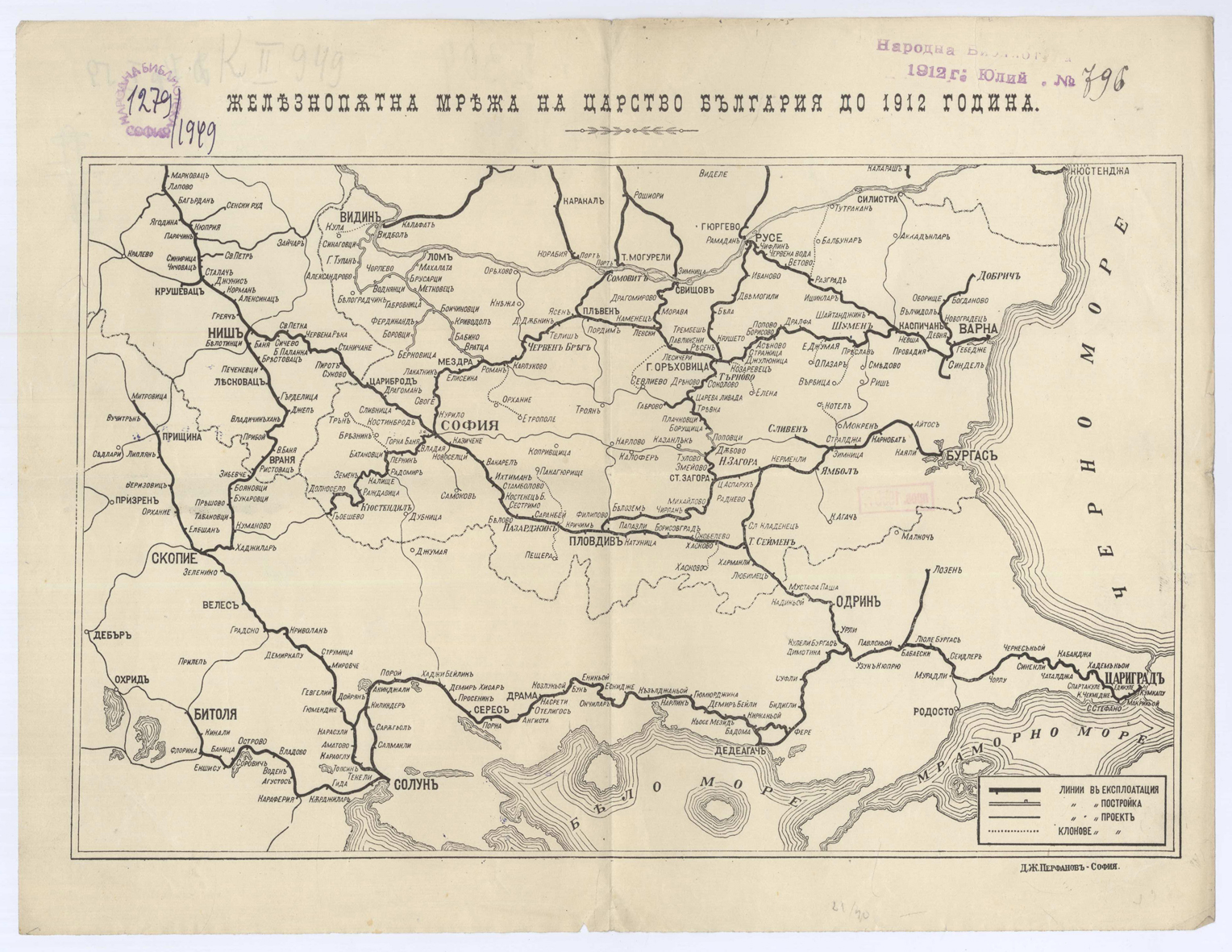 Railway network in Bulgaria c. 1912